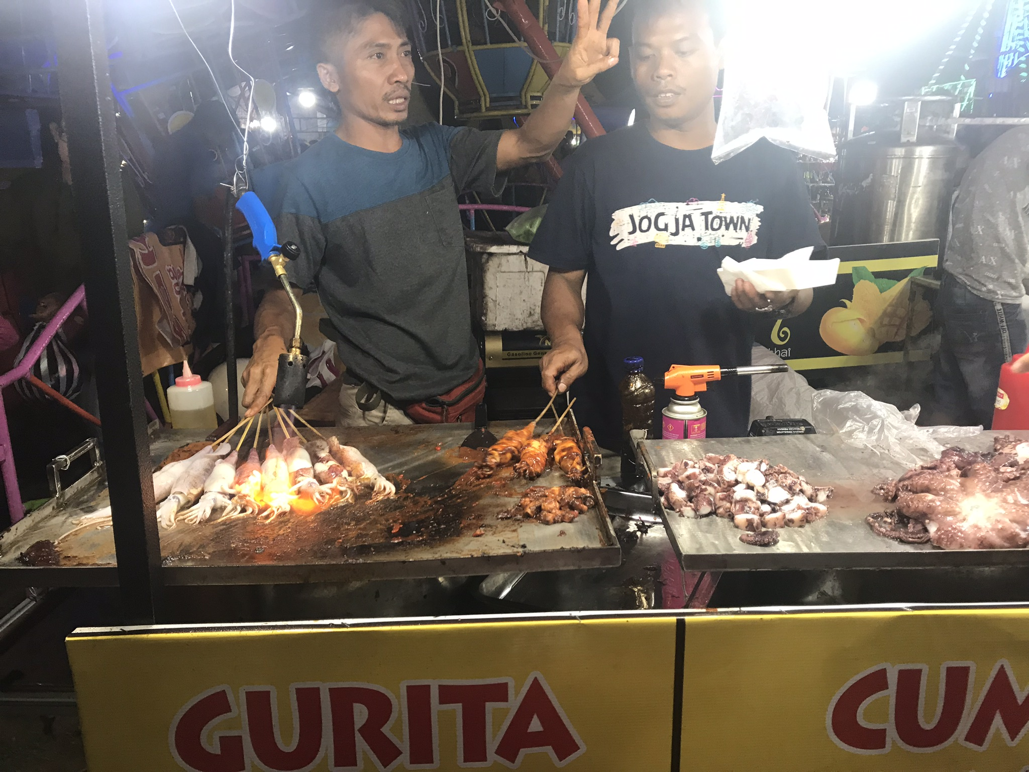 Street food in Ubud Night Market, it’s market especially for local people so everything was super cheap! This photo has been taken in the country: Indonesia